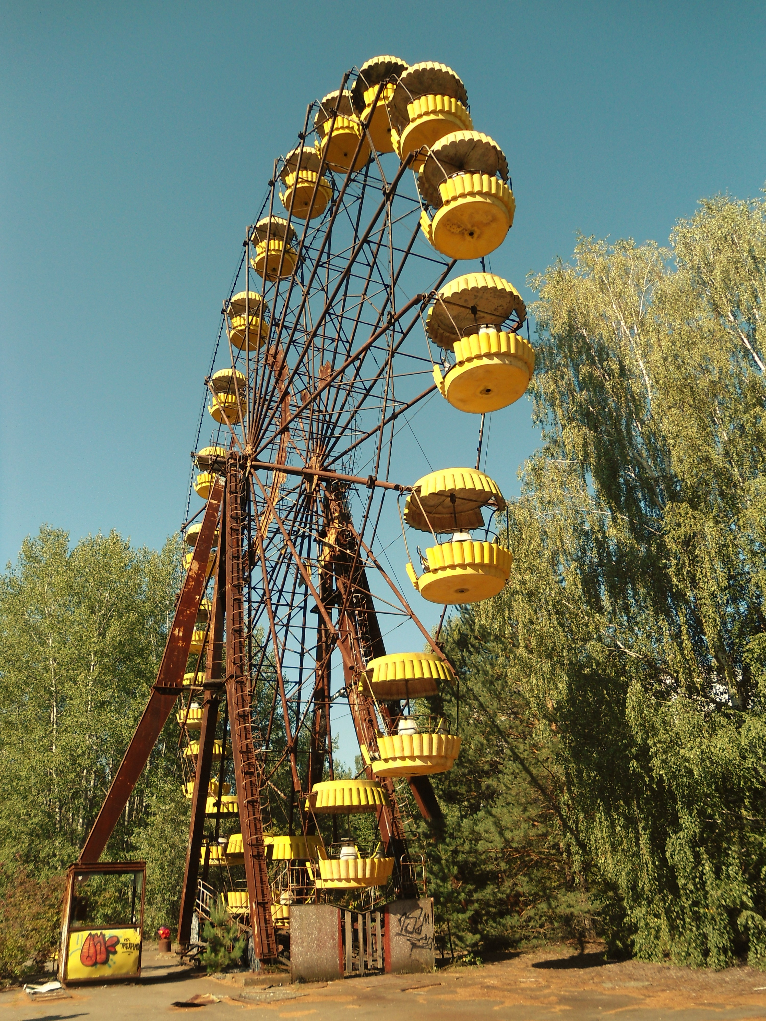 The disused Ferris wheel in the abandoned city of Priyat, Ukraine